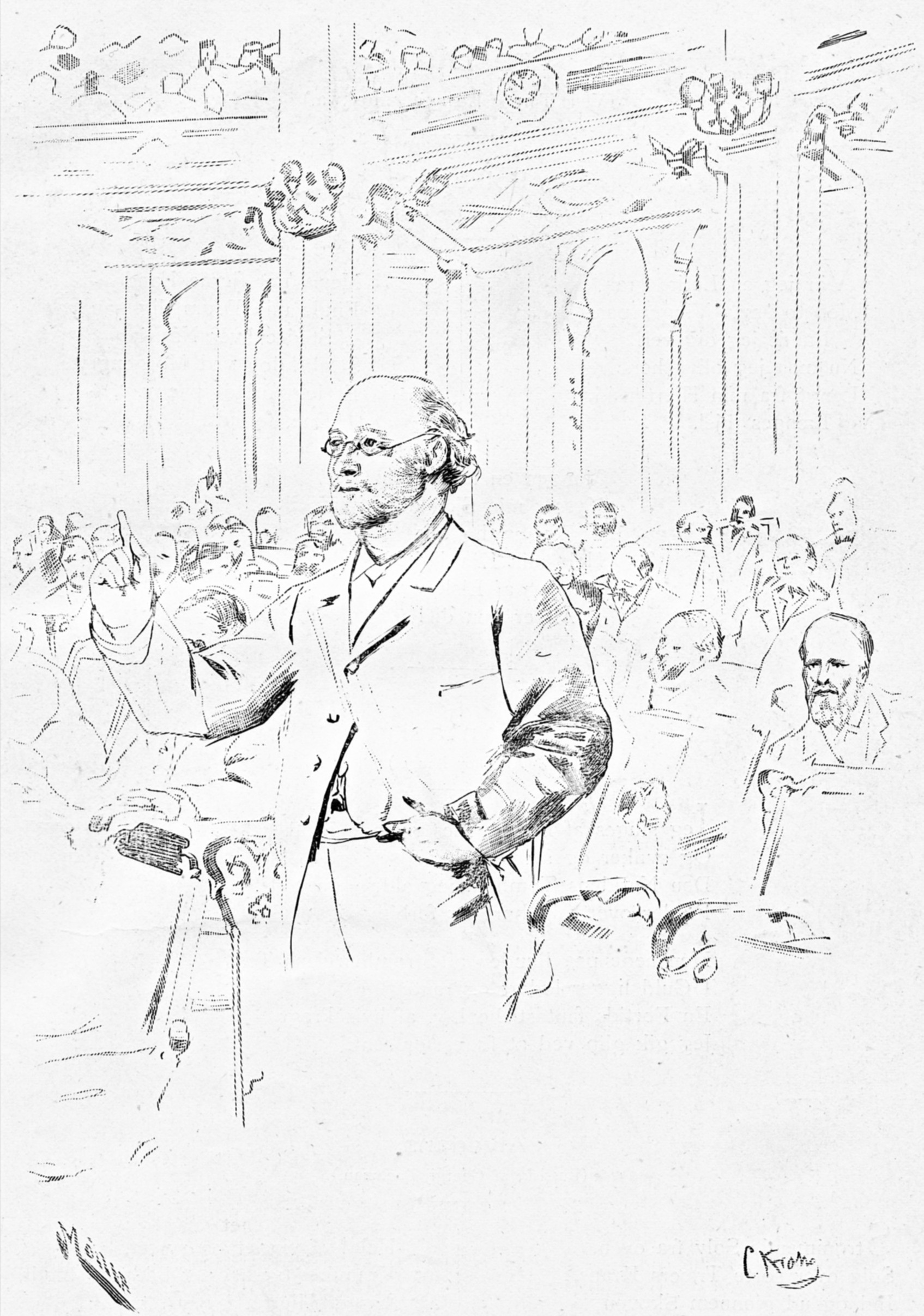 Scene from the Norwegian Parliament, Stortinget. Liberal MP Carl Christian Berner speaking. Drawing by Christian Krohg (1852–1925), engraved by Albert Møller (1864–1922).